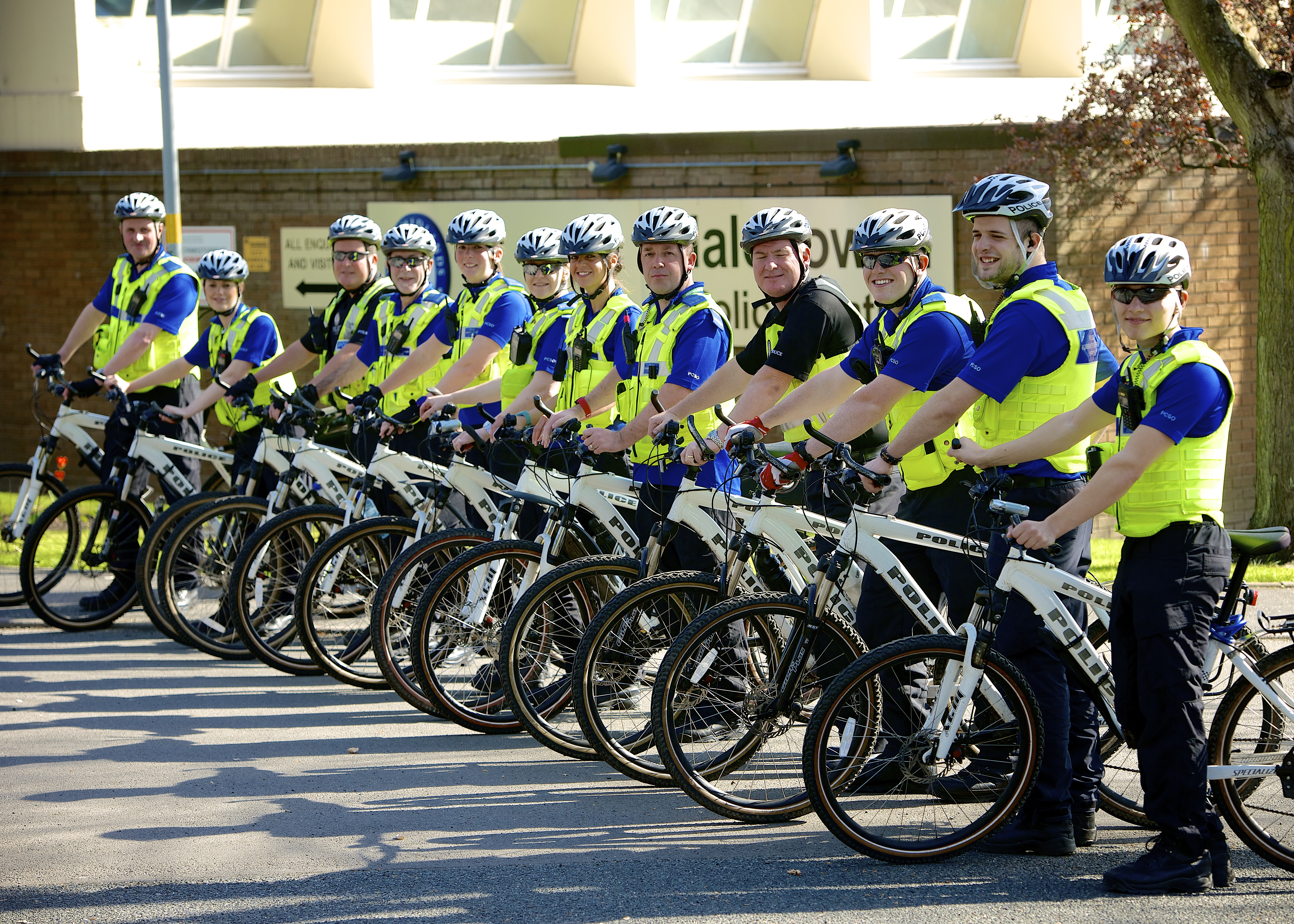 A day of action took place across the Dudley borough last week (3 May) with officers patrolling the streets on their cycles from 9am – 10pm. The day of action saw local neighbourhood officers concentrating cycle patrols in problematic areas which have been raised by residents at local community PACT (Police and Communities Together) meetings. These included anti-social behaviour, theft from motor vehicles and scrap metal yards visits.